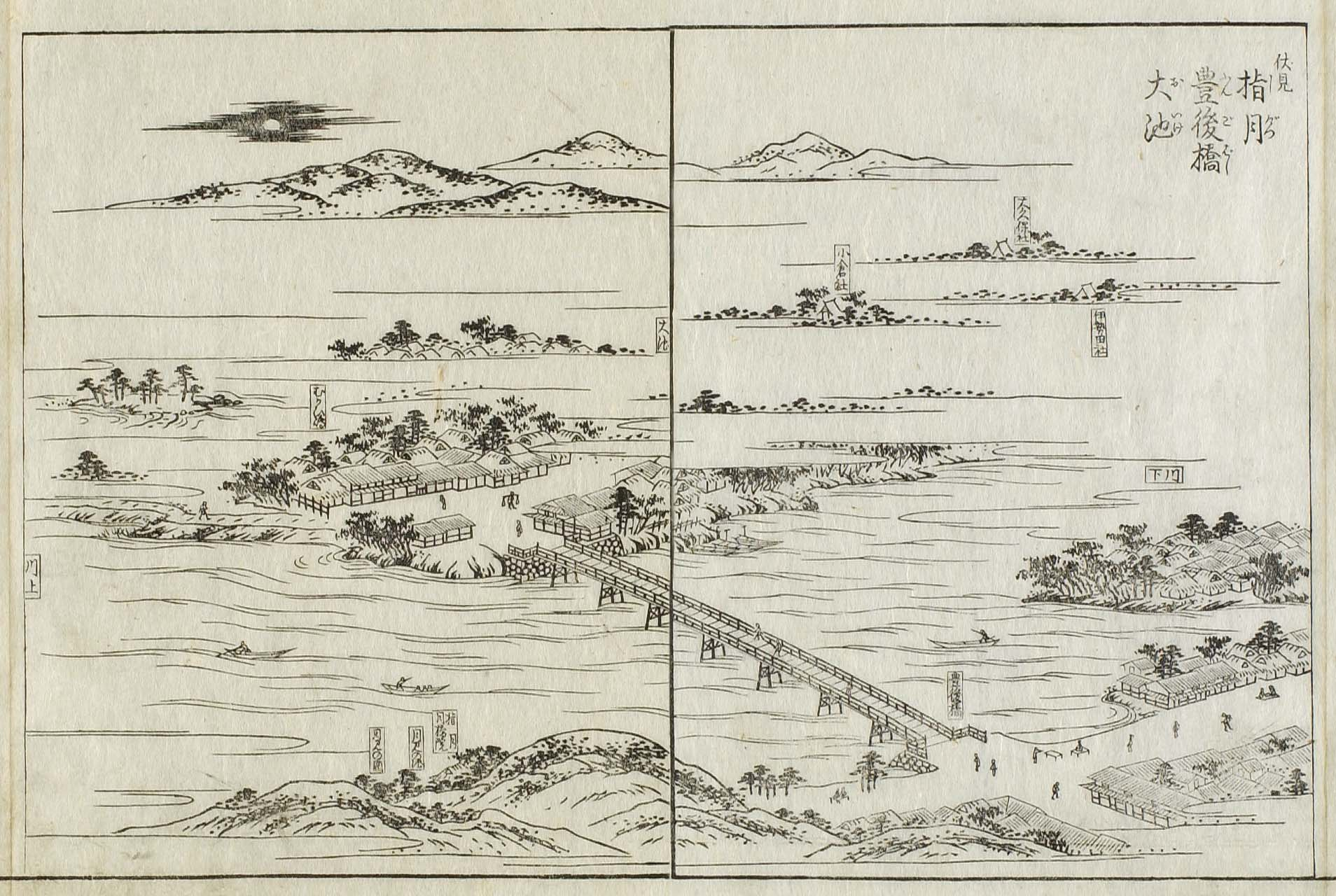 Ogura lake in Edo era.